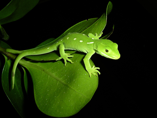 Naultinus elegans punctatus by Andrew Morrison